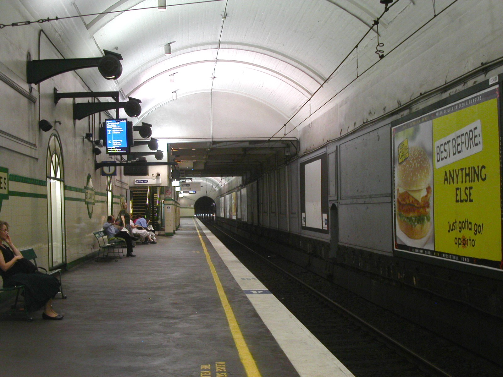 St James Station Platform 1. Image taken by Hohohob.